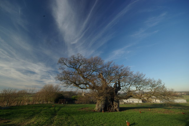 The Bowthorpe Oak The famous centuries-old oak tree at Bowthorpe Park Farm near Manthorpe south of Bourne.